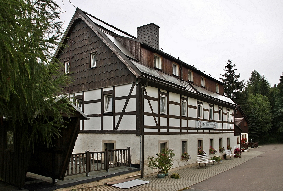 This image shows the "Old Mill" in Holzhau in the Eastern Ore Mountains. The mill was built 1805.